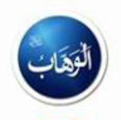 Al-Wahhāb / The Bestower is a name of Allah, is a name of God in Islam.